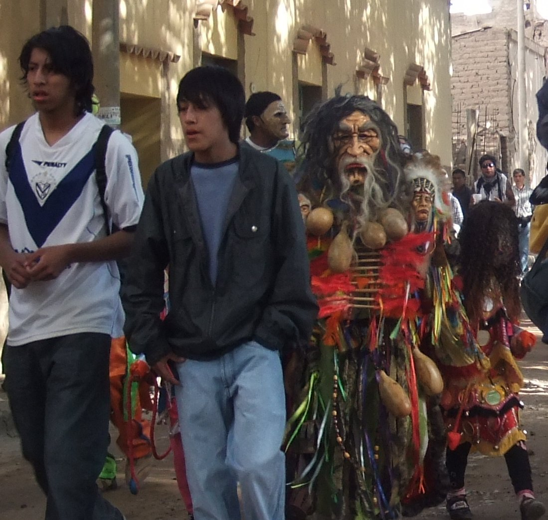 Carnival of Humahuaca, Quebrada de Humahuaca, Jujuy, Argentina